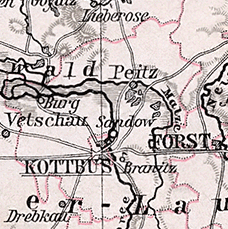 Detail from a map of Brandenburg.